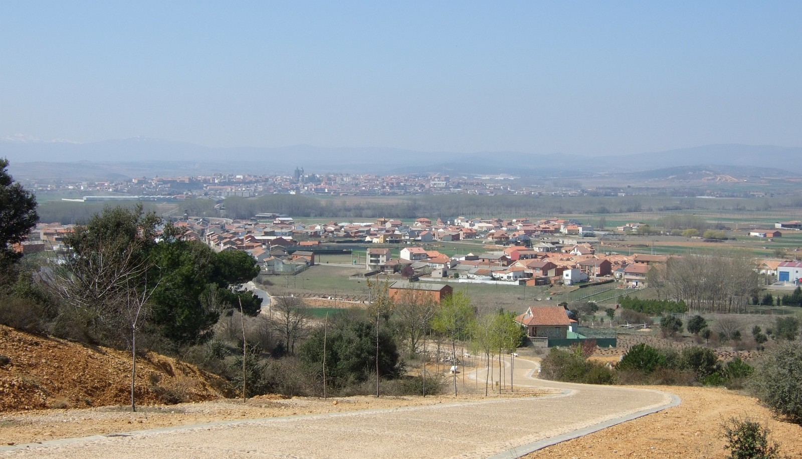 San Justo de la Vega and in the background Astorga